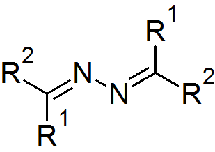 The generic structure of azines